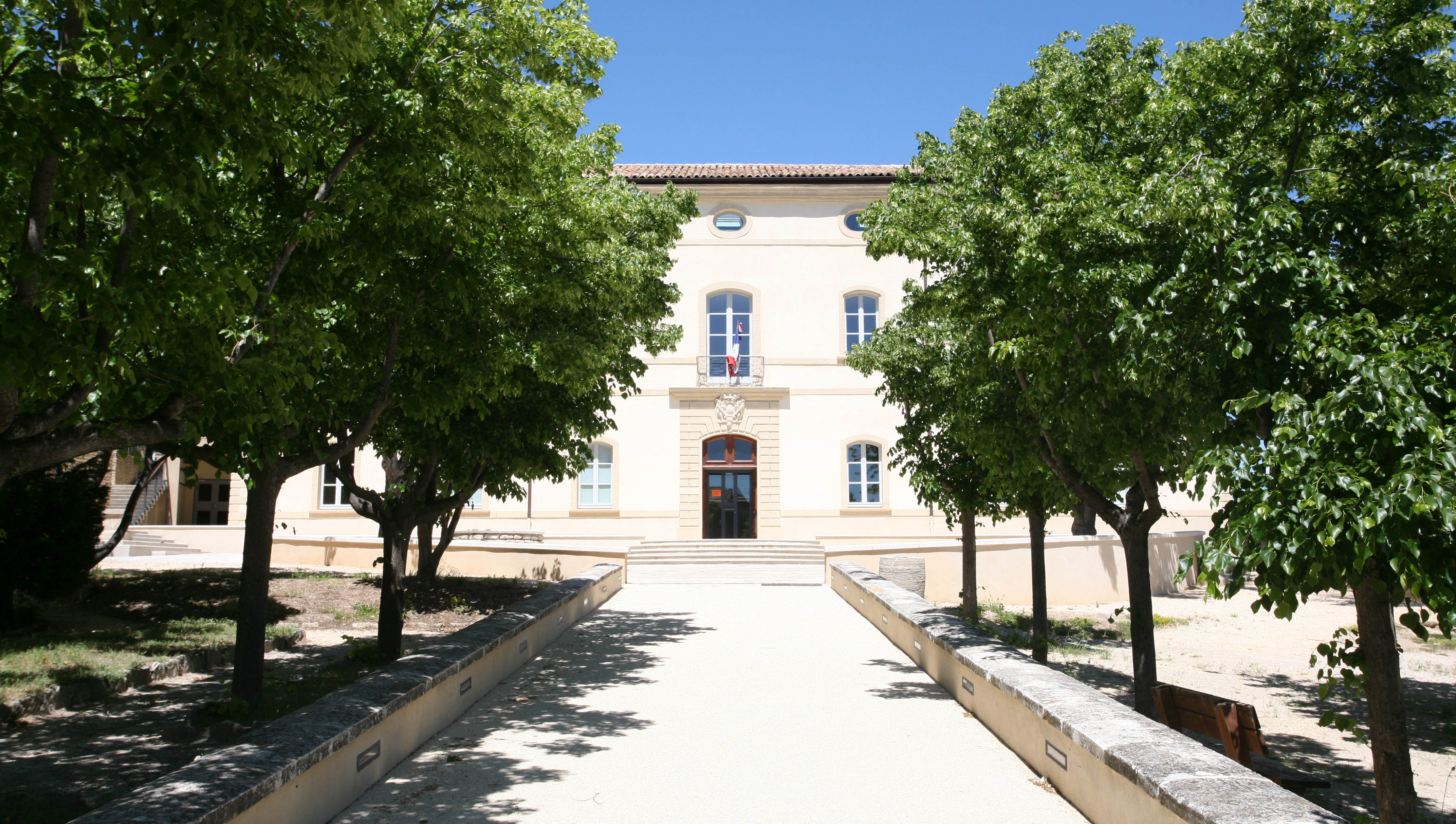 Hotel Simiane, new town office of the village of Gordes, Vaucluse, France